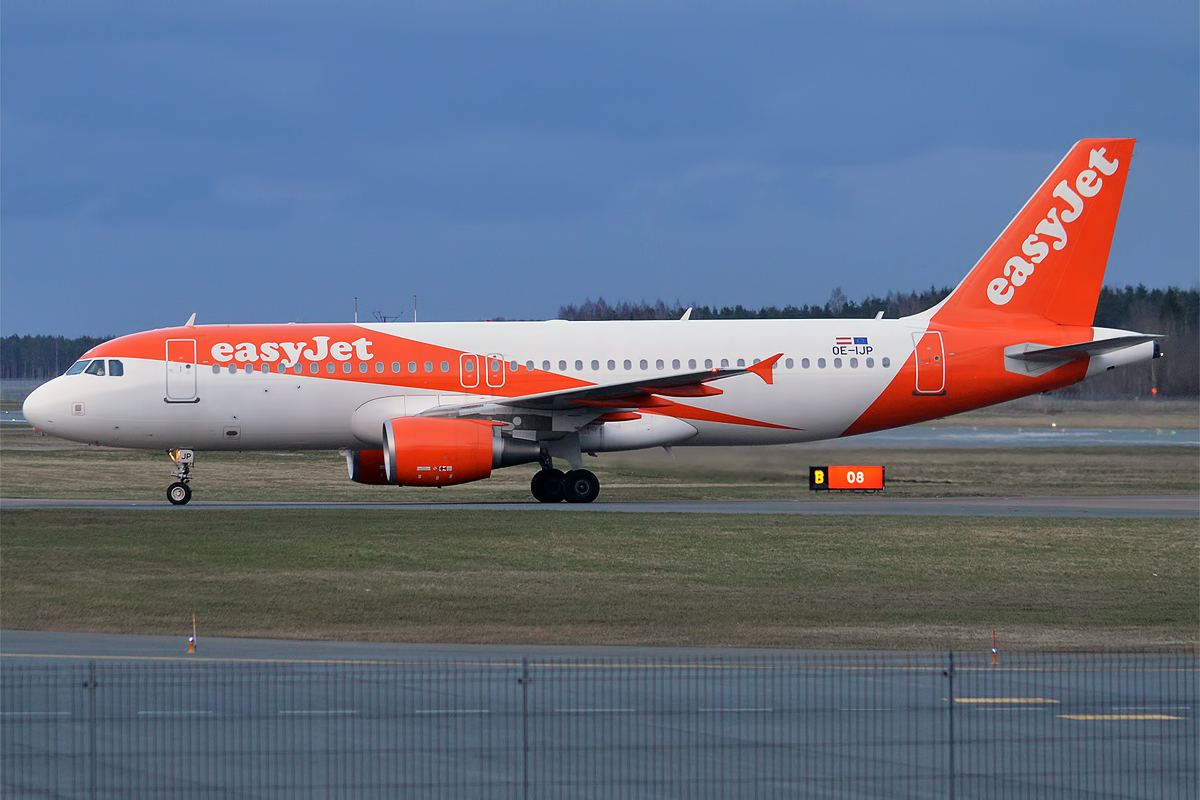 EasyJet Europe, OE-IJP, Airbus A320-214